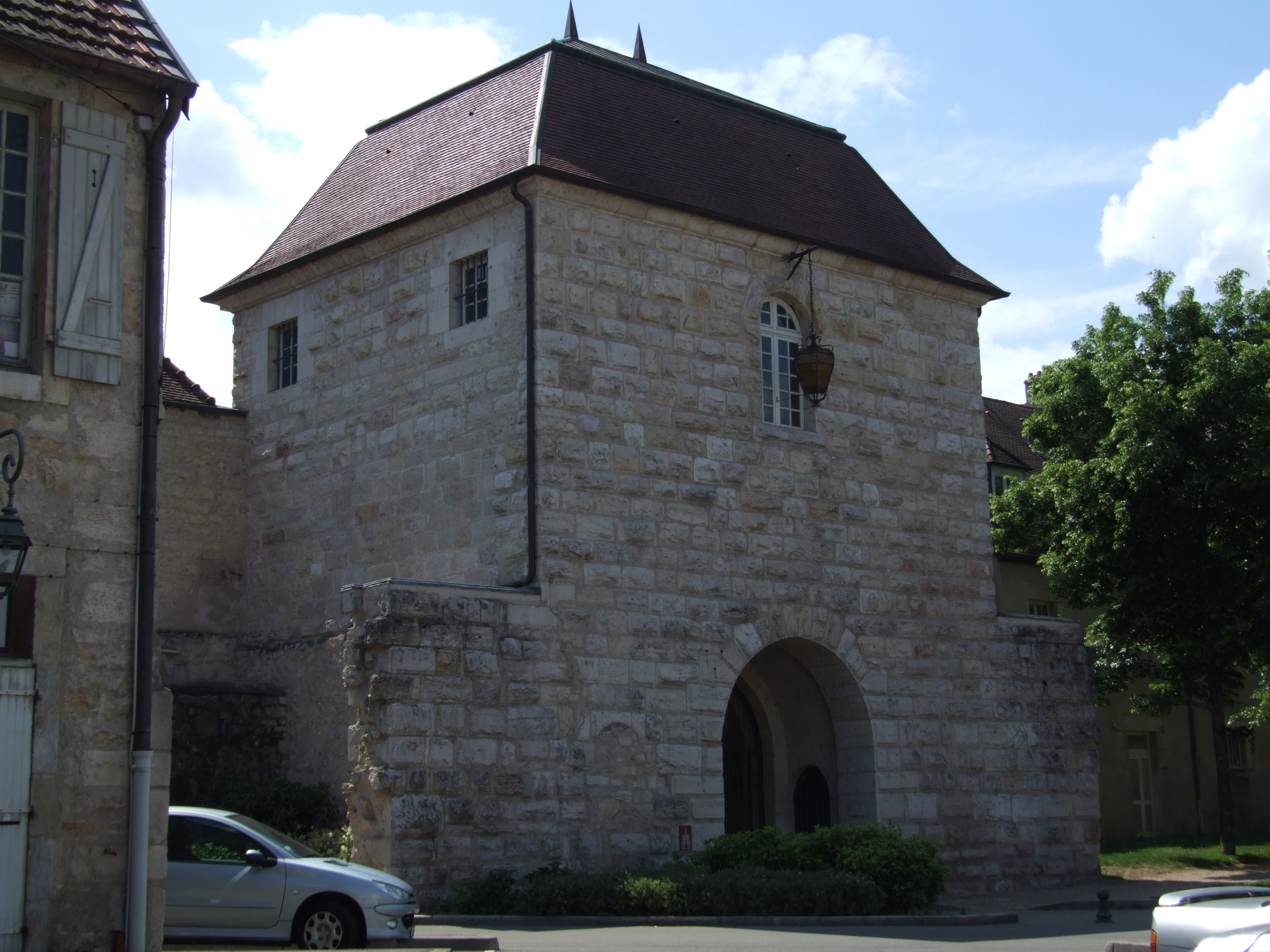 Dole, Jura, FRANCE